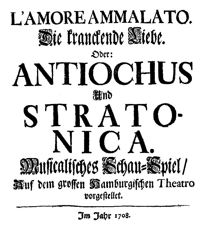 Christoph Graupner - Antiochus und Stratonica - titlepage of the libretto from 1708